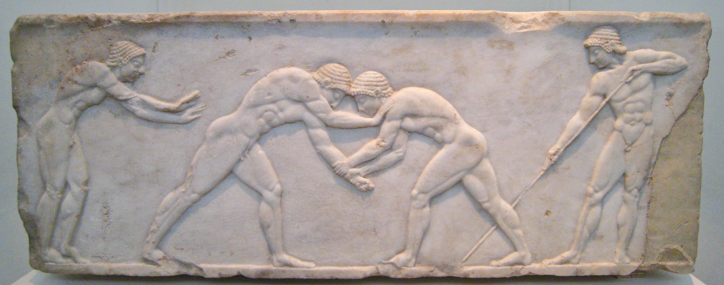 Base of a funerary kouros found in Athens, built into the Themistokleian wall. Three sides are decorated in relief: wrestlers are on the front side, an unspecified athletic game (known as "Ball Players") on the left side, a cat and dog fight scene on the right side. front view